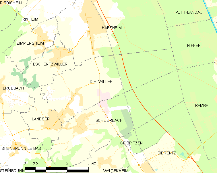 Map of French municipality